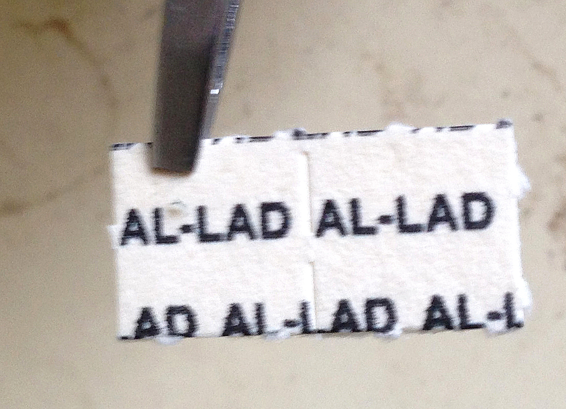 blotter papers containing 150µg AL-LAD each